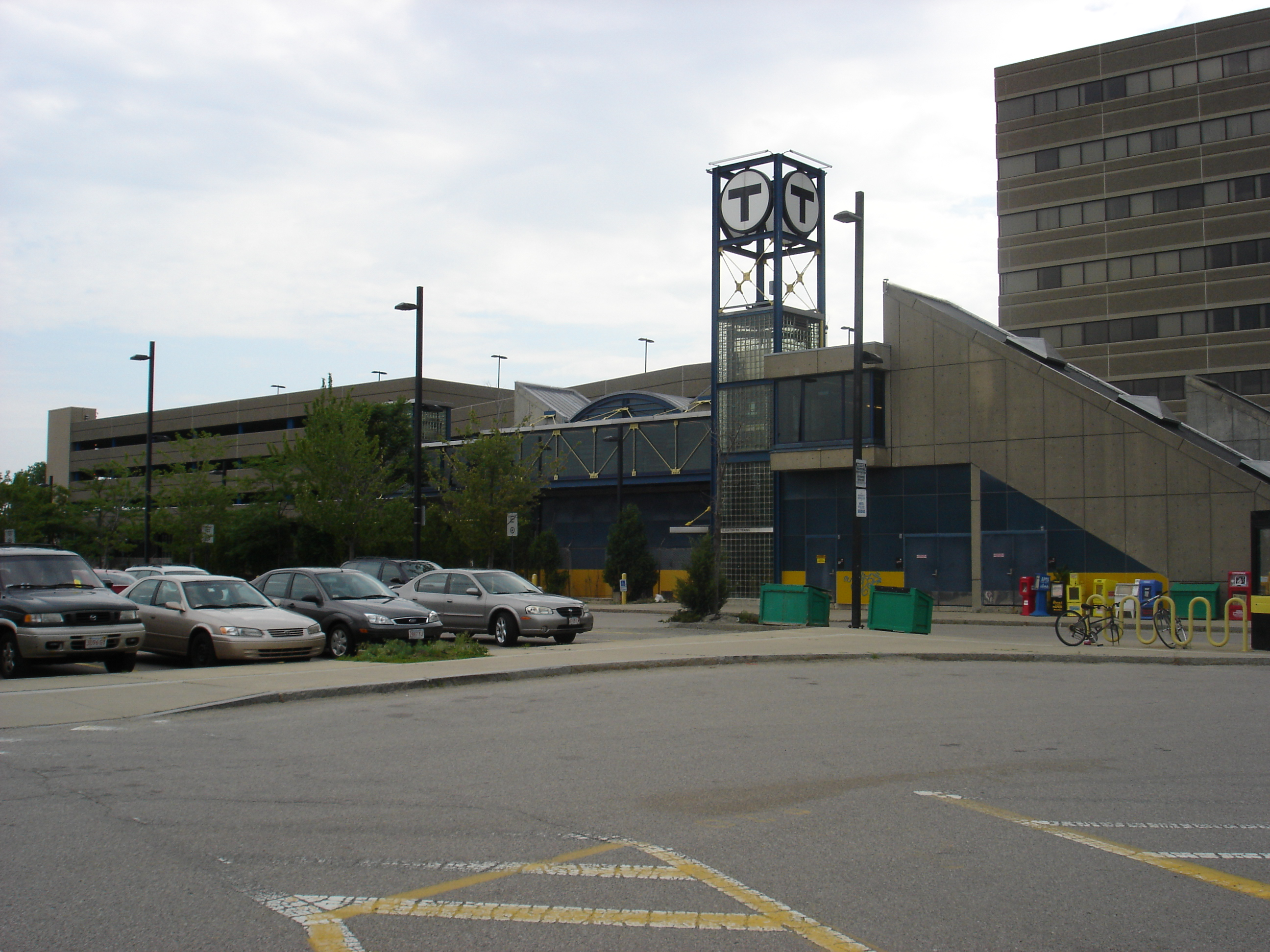 The Hancock Street entrance to the North Quincy MBTA station and associated parking lot in Quincy, Massachusetts